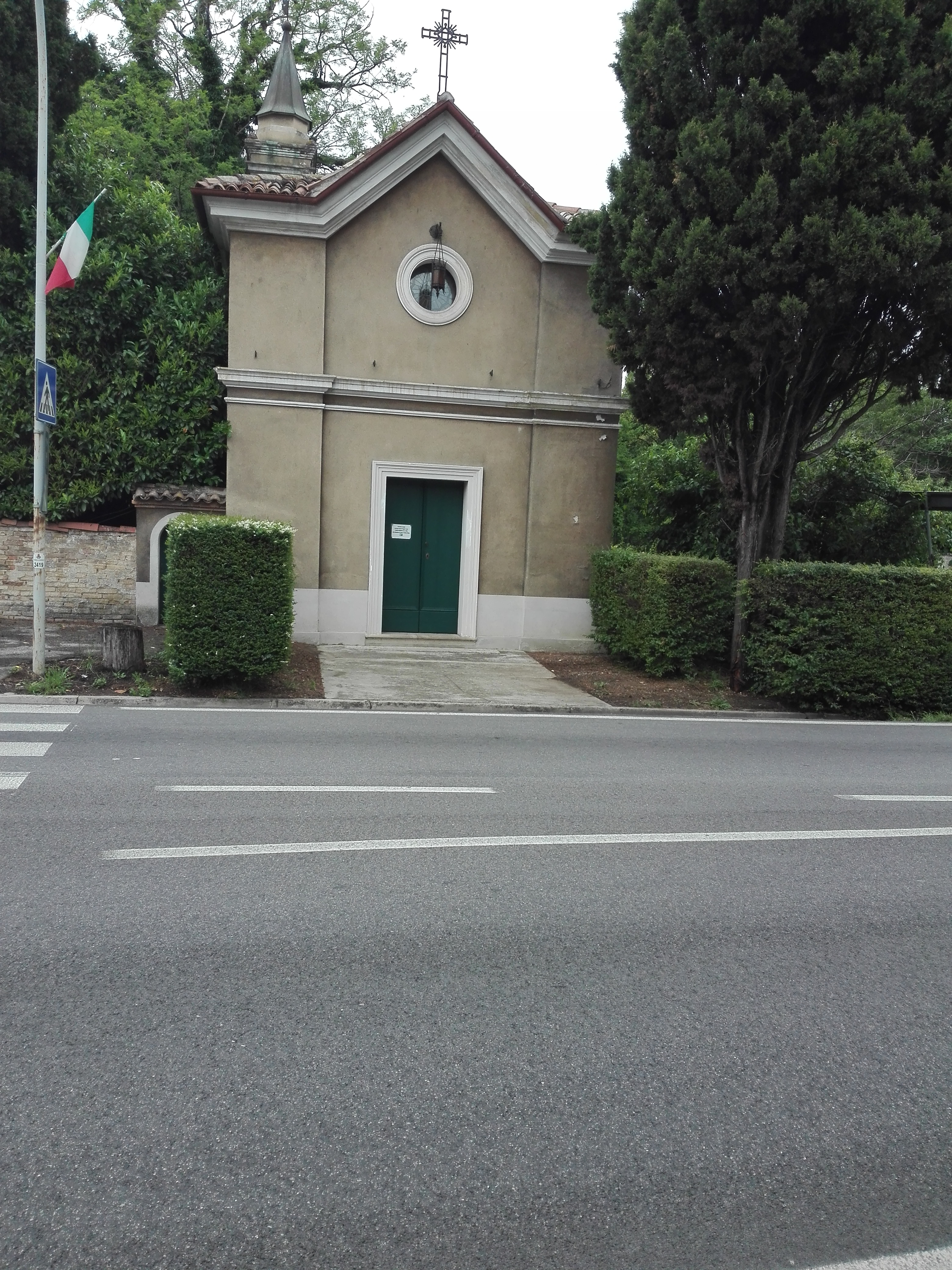 The church of Saint Rocco in Casella of Asolo